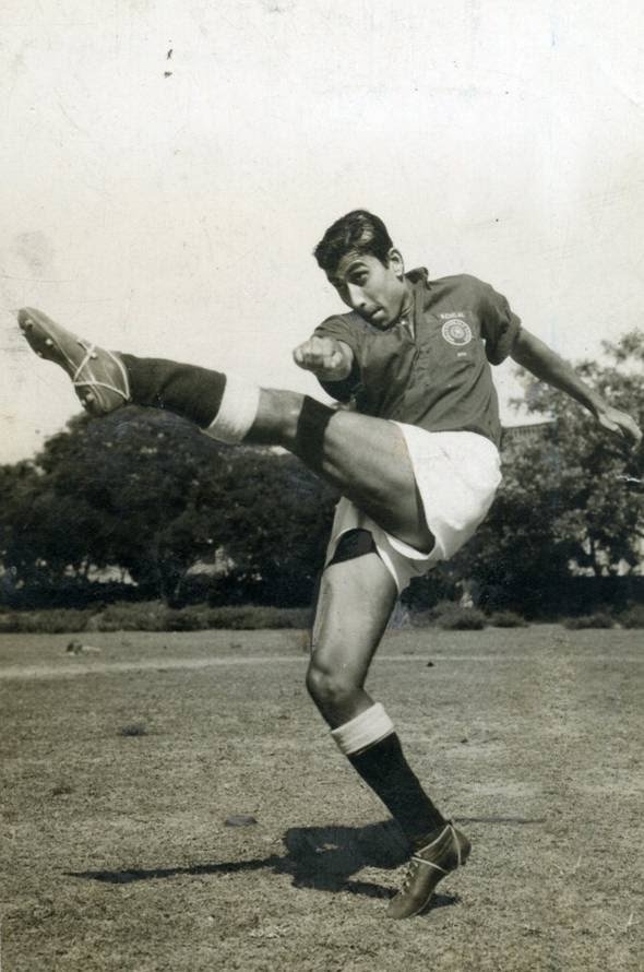 P. K. Banerjee captained the Indian football team at the Rome Olympics.